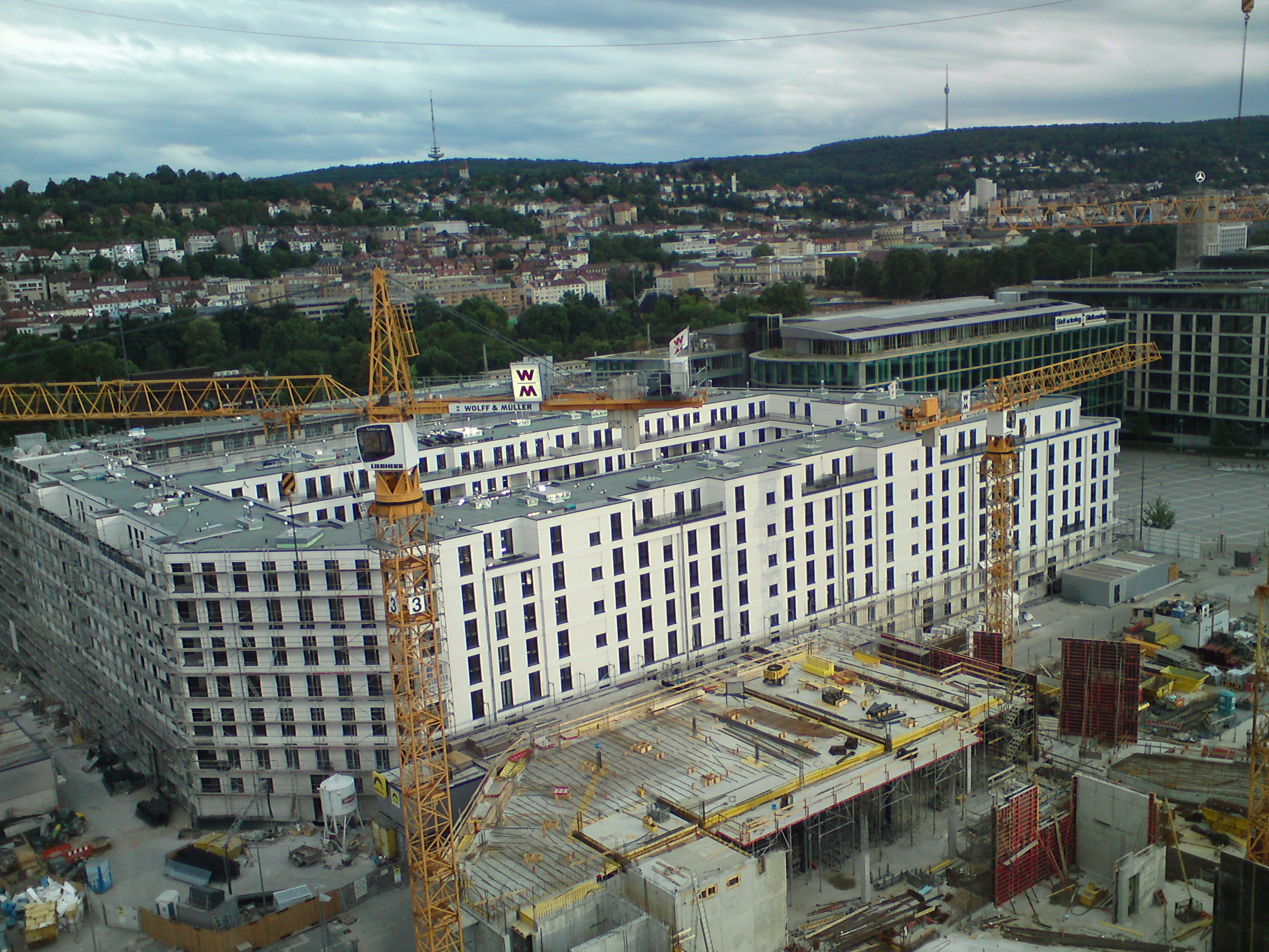 View from the Stadtbibliothek am Mailänder Platz to the Pariser Höfe. At the Right: the new construction of the Sparkassenacademy.